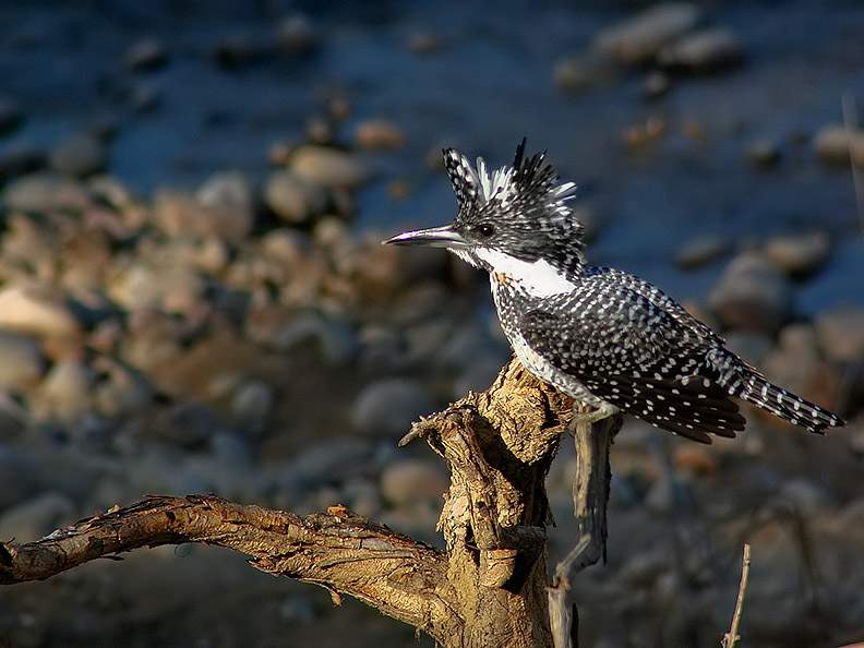 Picture taken from the safari vehicle, at a stream just beyond the main gate of the Bijrani Range of the Jim Corbett National Park.